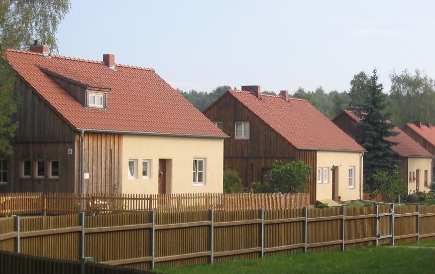 Renovated houses for farmhands in Schmerwitz, built after 1945. The village Schmerwitz is a part of the village Schlamau. Schlamau again is a part of the municipality Wiesenburg (Mark) in the district Potsdam-Mittelmark of the German state Brandenburg. Schmerwitz appertains to the nature park Naturpark Hoher Fläming.